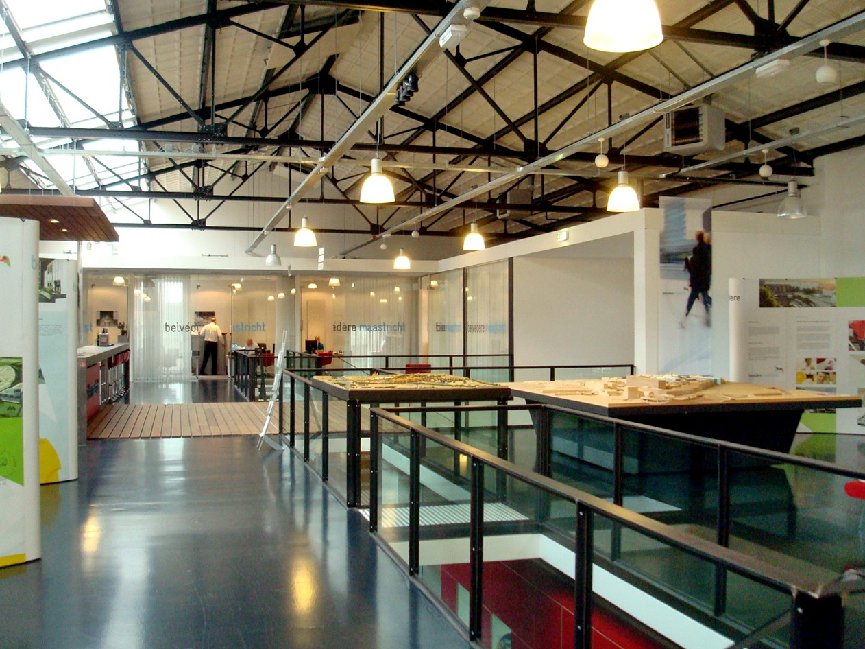 View of info center Redevelopment Plan Belvédère in the former showroom of Koninklijke Sphinx potteries, Maastricht, the Netherlands.